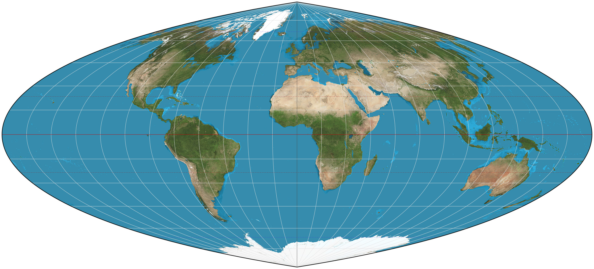 The world on the quartic authalic projection. 15° graticule. Imagery is a derivative of NASA’s Blue Marble summer month composite with oceans lightened to enhance legibility and contrast. Image created with the Geocart map projection software.